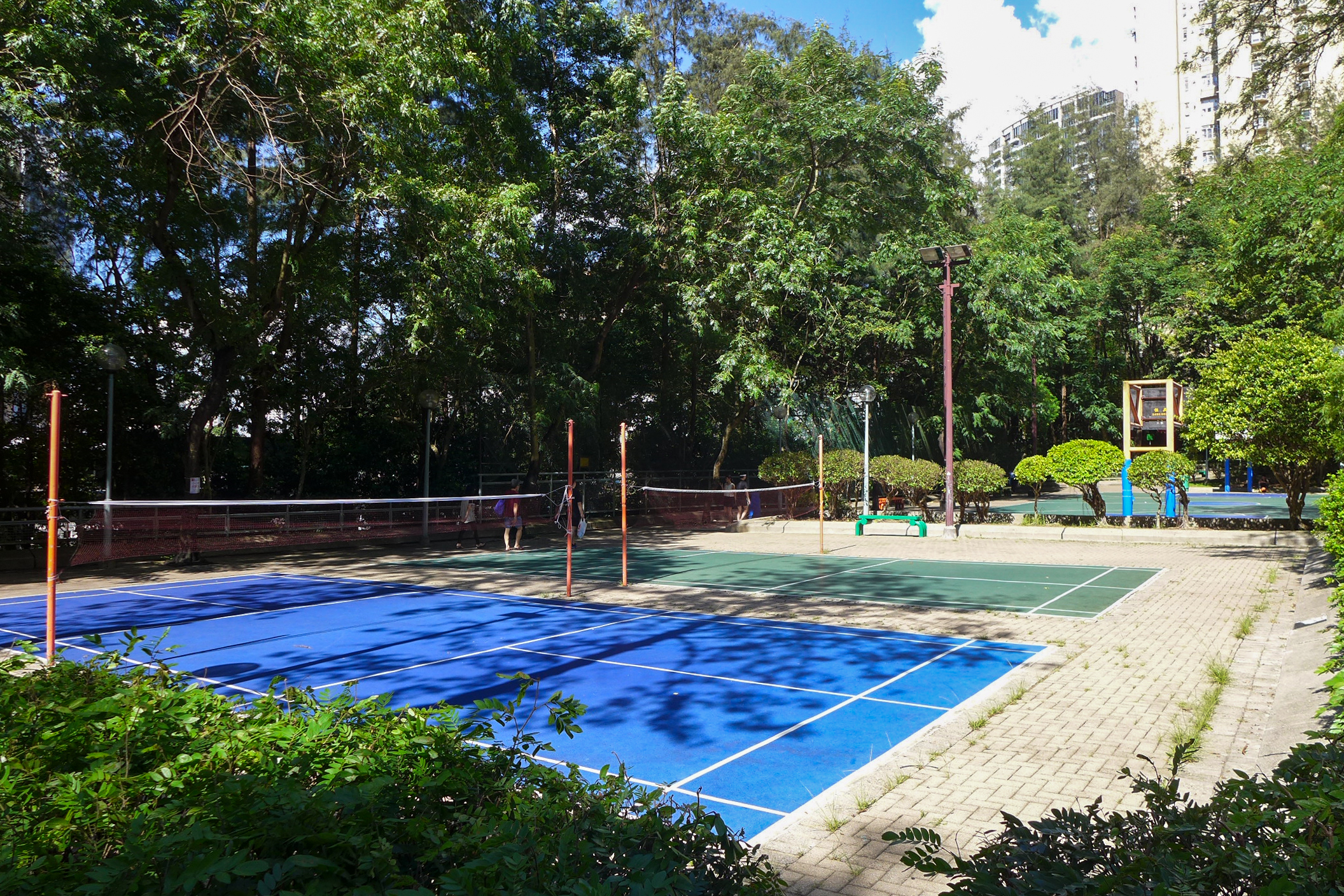 Hin Keng Estate Badminton Court